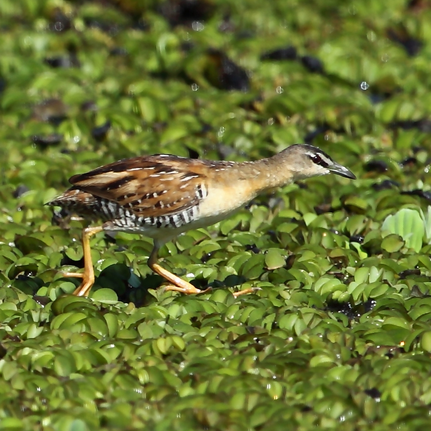 Yellow-breasted Crake at Tanquã - Piracicaba - SP - Brazil